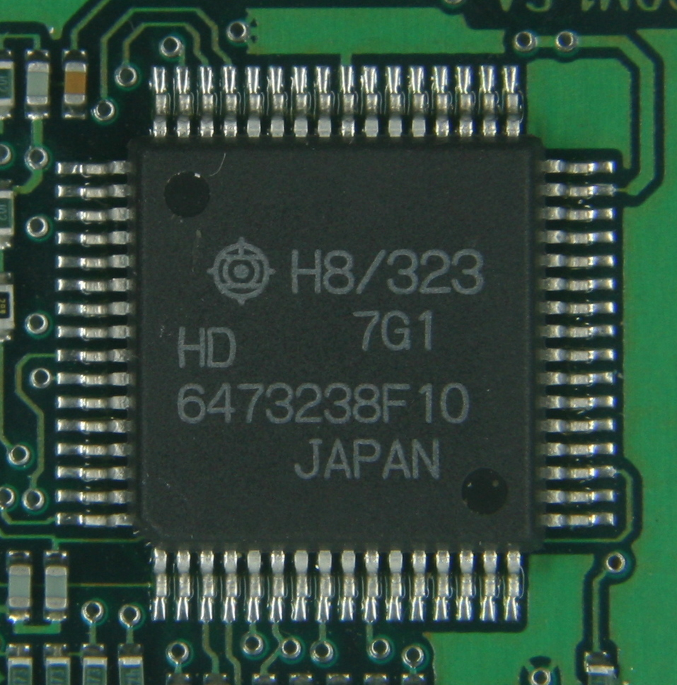 IC photo